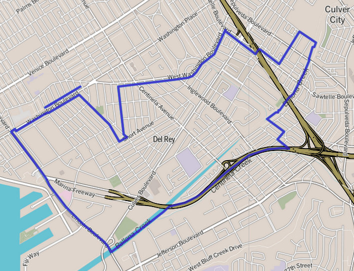 Map of the Del Rey neighborhood of western Los Angeles, California. As delineated by the Los Angeles Times.